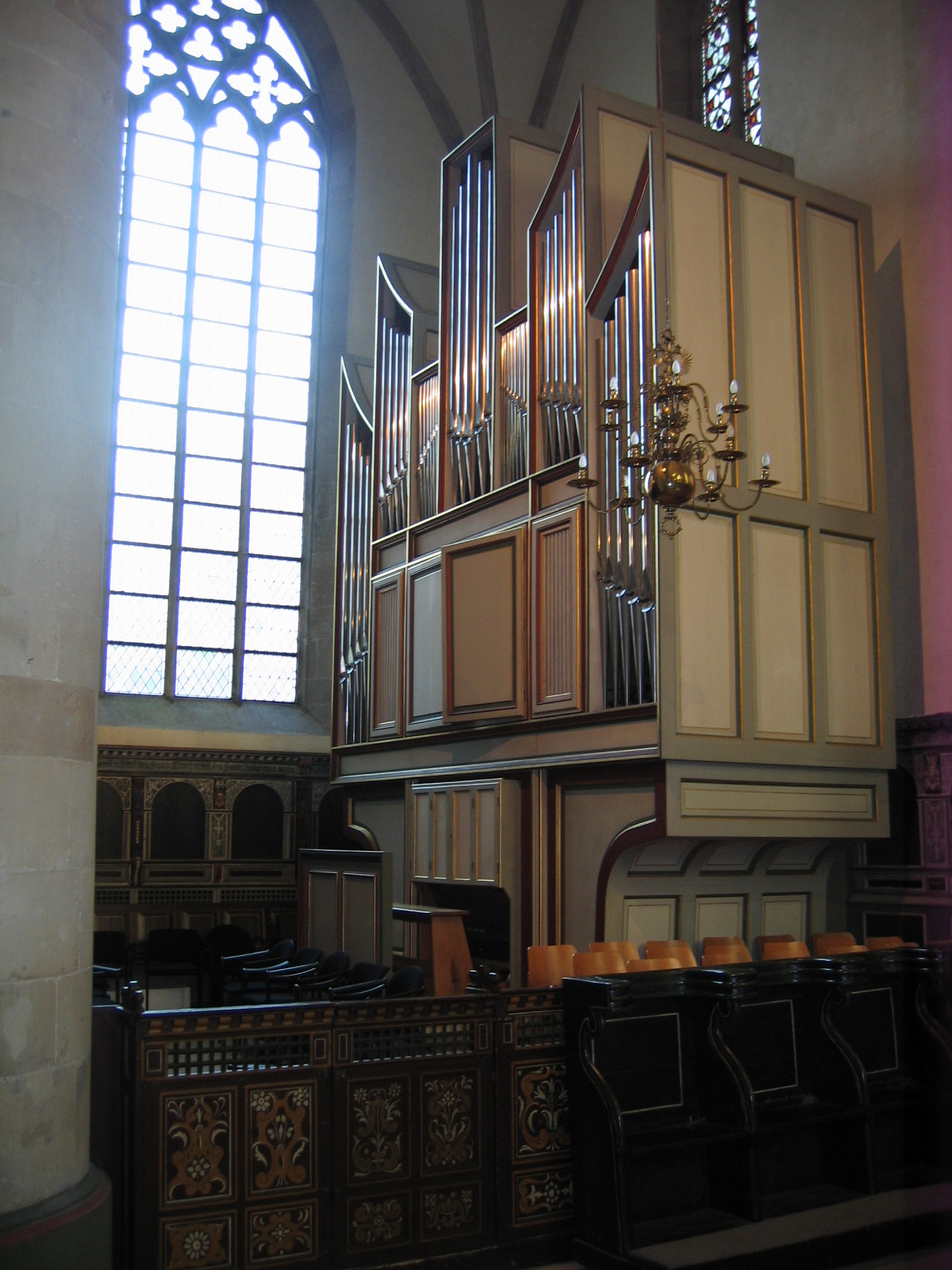 Organ in St. John church in Herford, District of Herford, North Rhine-Westphalia, Germany.